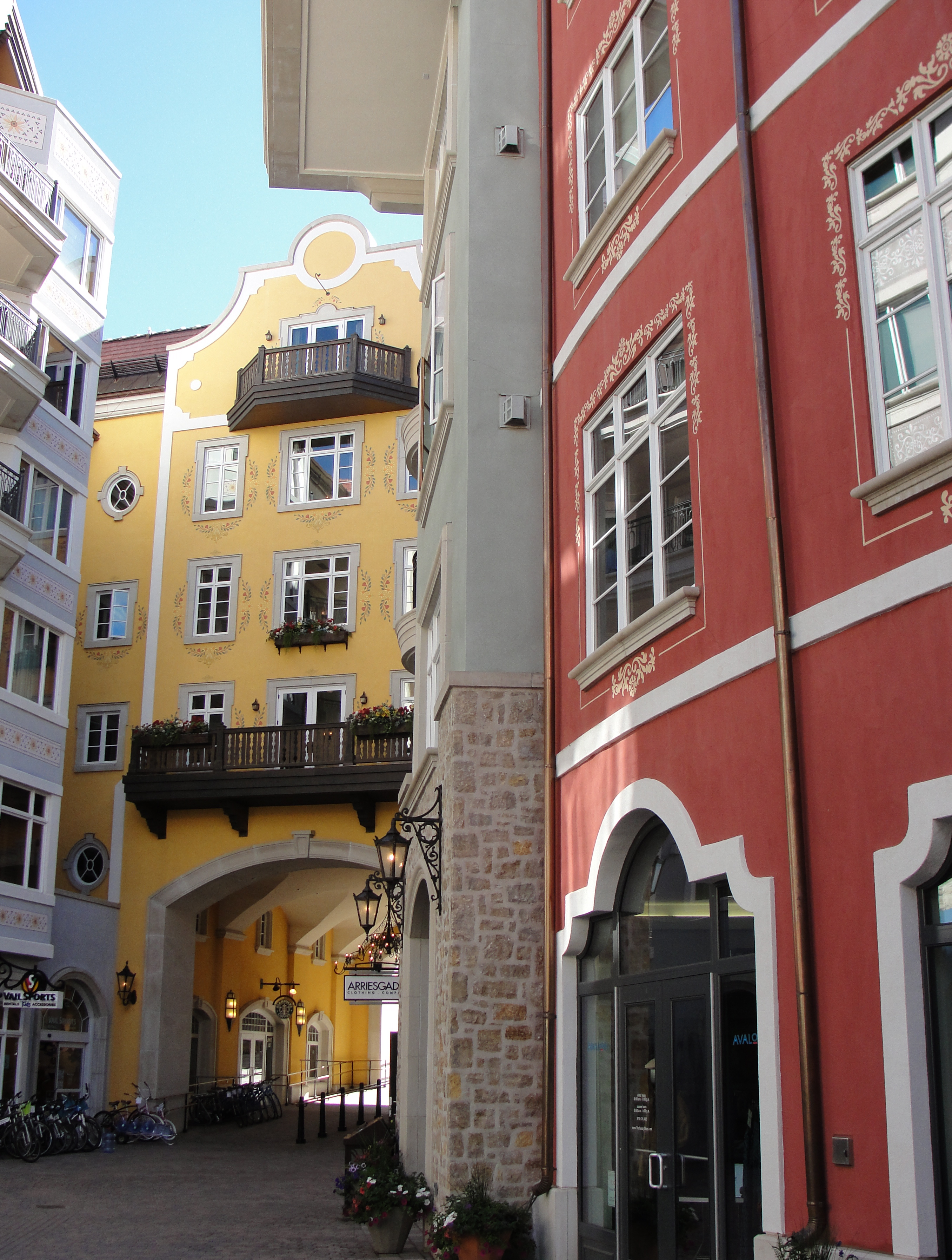 Lionshead. Condos and shops in Lionshead, Vail Colorado. Designers work hard to maintain a European aesthetic to the resort., Vail.